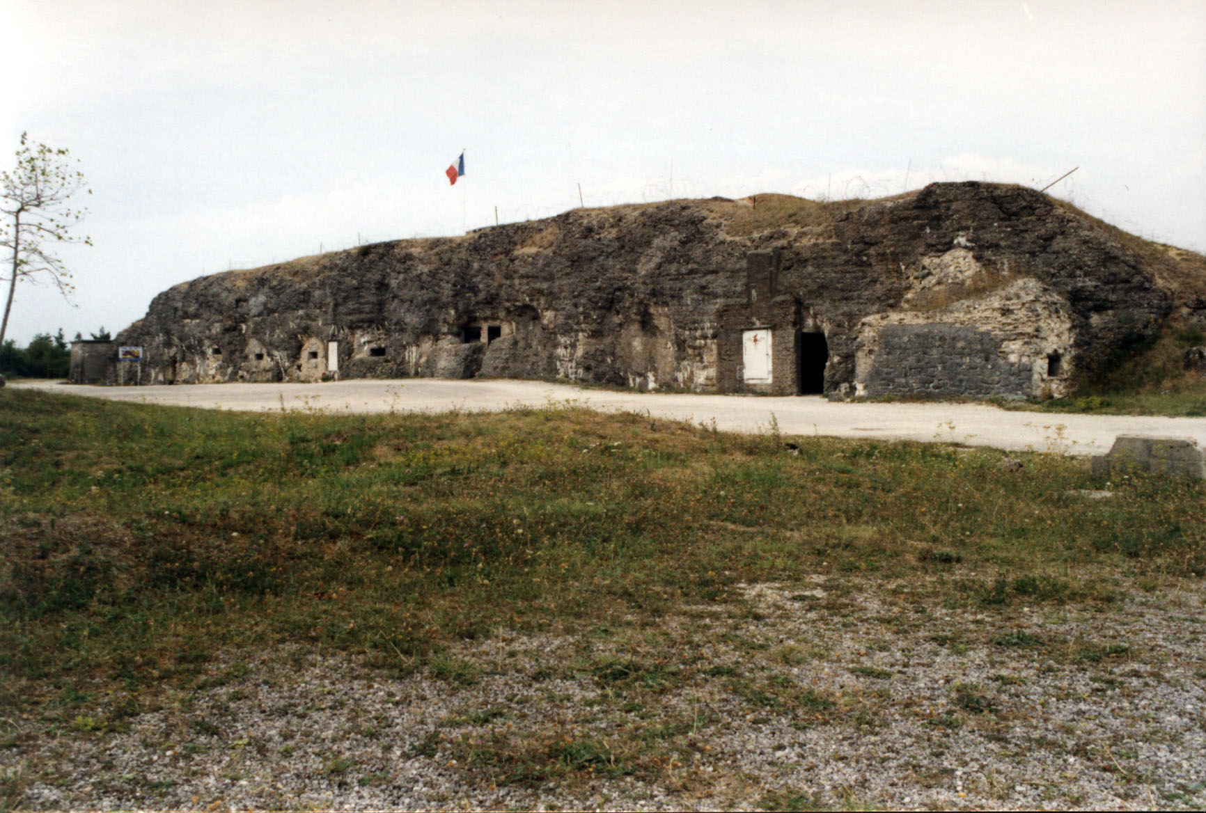 Fort Vaux, Verdun, France